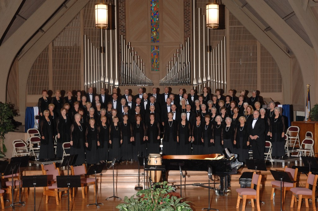 Hilton Head Choral Society full chorus